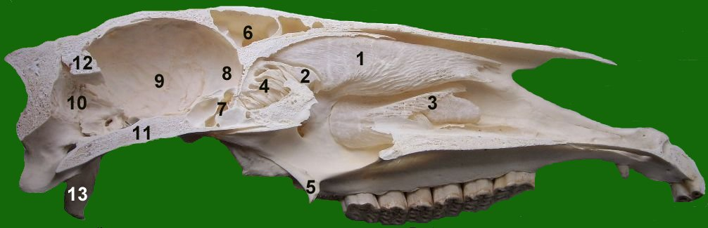 Sagittal section through a equine skull. 1 Concha nasalis dorsalis, 2 Concha nasalis media, 3 Concha nasalis ventralis, 4 Os ethmoidale, 5 Os pterygoideum, 6 Sinus frontalis, 7 Sinus sphenoidalis, 8 Fossa cranii rostralis, 9 Fossa cranii media, 10 Fossa cranii caudalis, 11 Porus acusticus internus, 12 Tentorium cerebelli osseum, 13 Processus paracondylaris